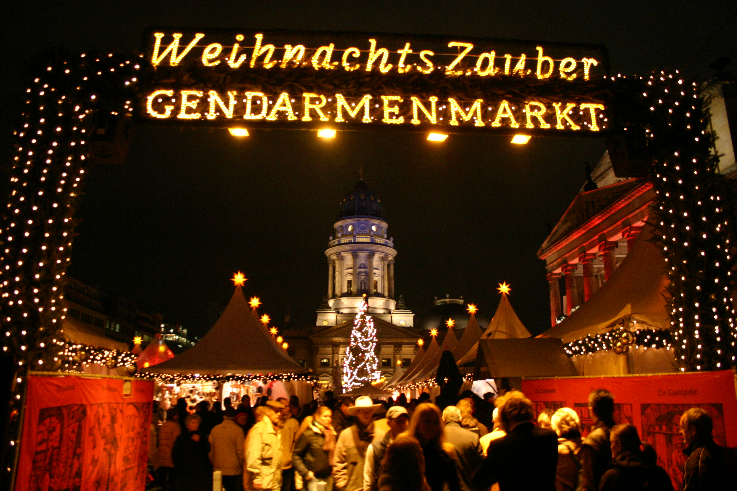 Christmas market at Gendarmenmarkt, Berlin